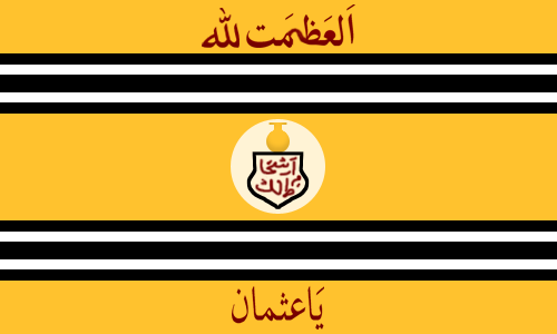 The Asafia flag of Hyderabad. The script along the top reads Al Azmatulillah meaning "All greatness is for God". The bottom script reads Ya Uthman which translates to "Oh Uthman". The writing in the middle reads "Nizam-ul-Mulk Asif Jah"